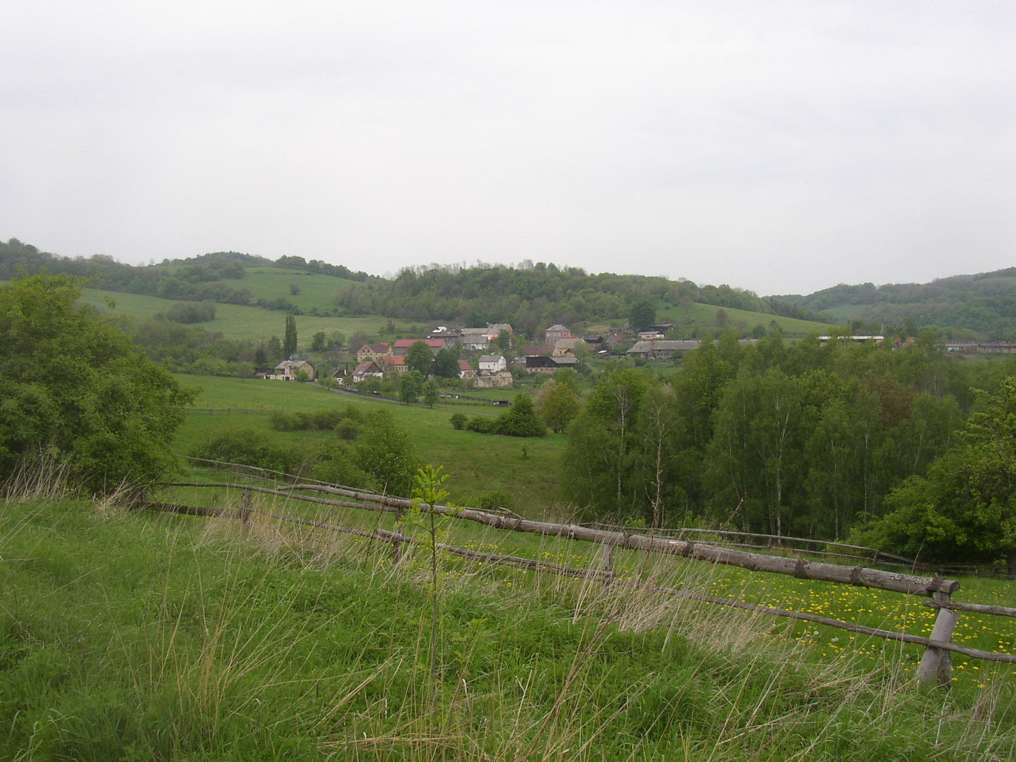 Mírkov, a part of Povrly municipality, Ústí nad Labem District, Czech Republic, as seen from the southeast, from Mašovice road.